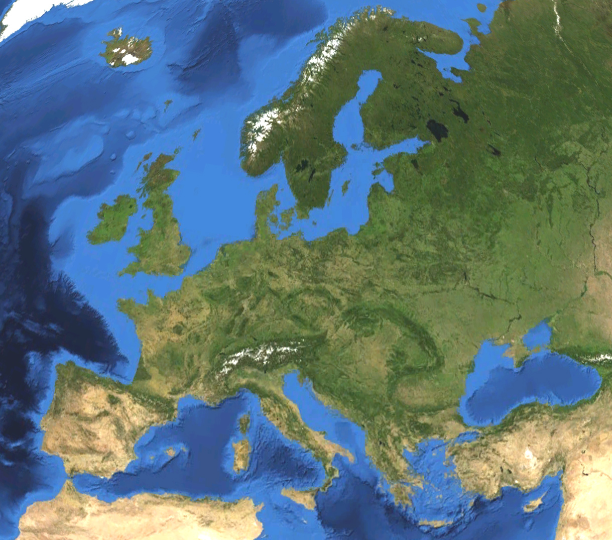 Satellite picture of Europe. Land terrain and bathymetry (ocean-floor topography).